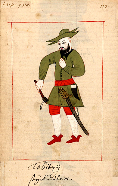 A "topçu"(artillery) soldier of Ottoman army.